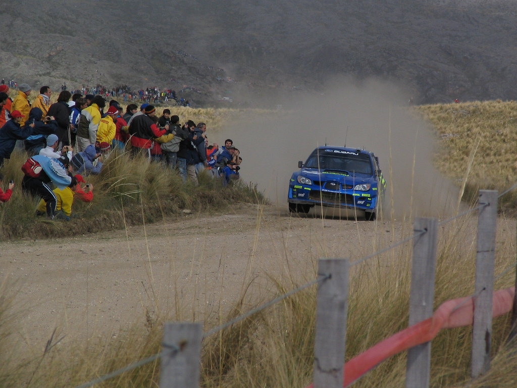 Petter Solberg driving his Subaru Impreza WRC on SS20 of the 2006 Rally Argentina.